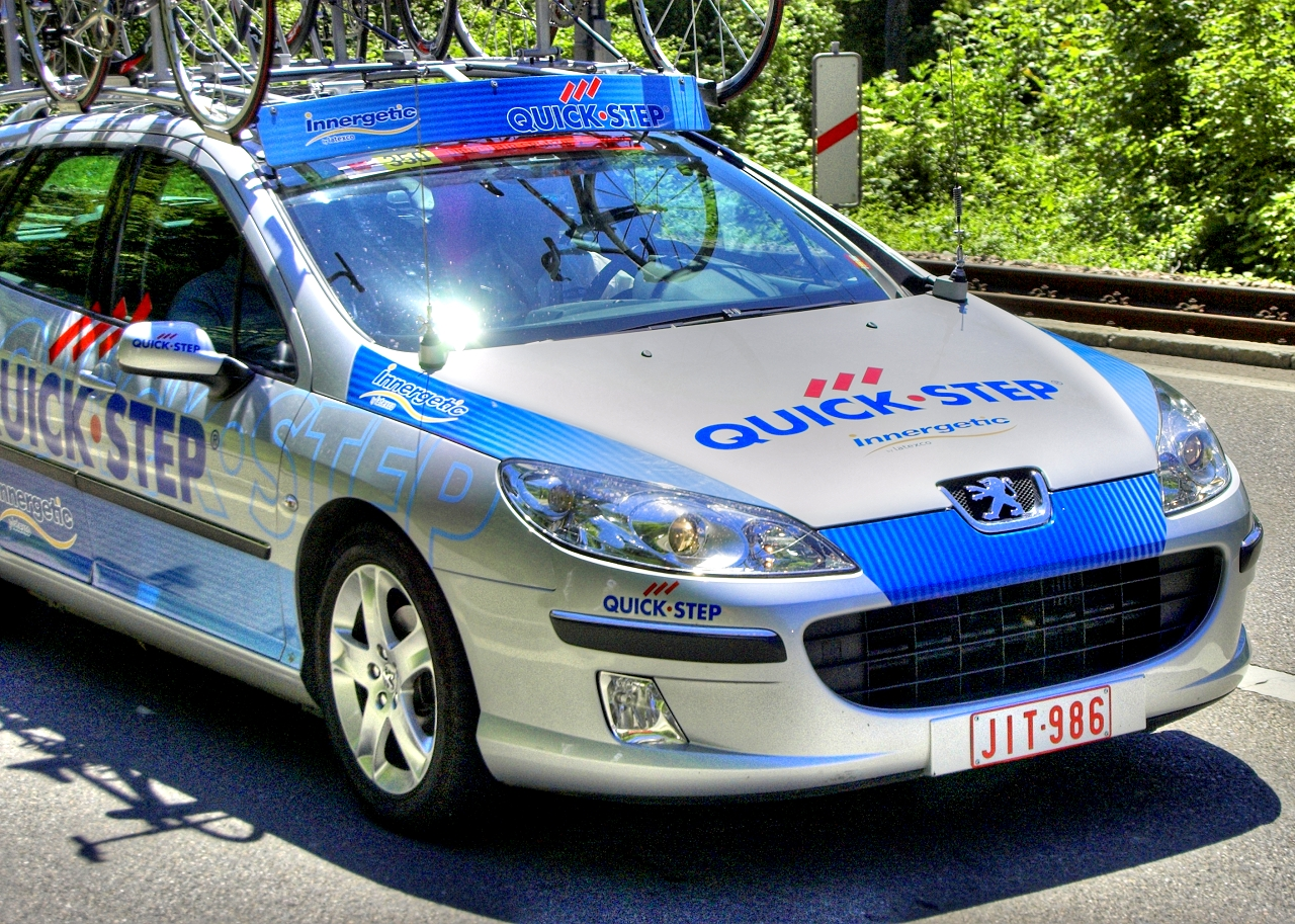 The Quickstep team car